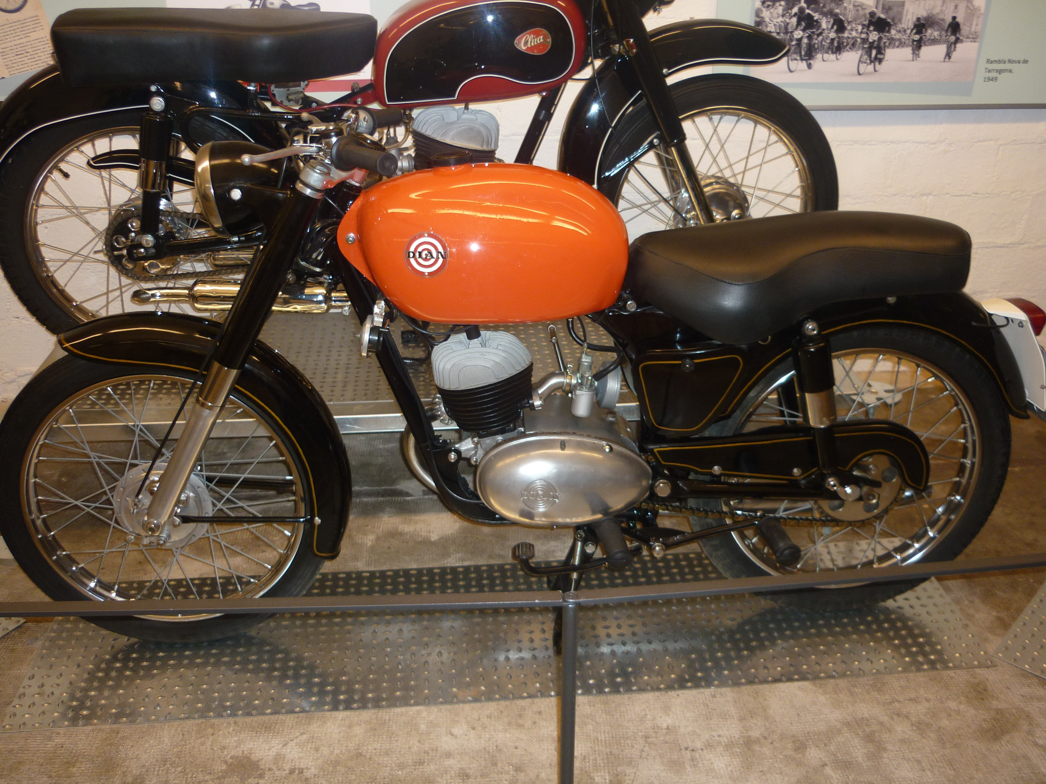 Dian 125 125cc (1961). Museu de la Moto de Barcelona (Catalonia).